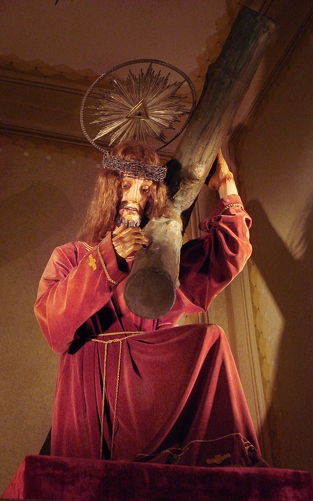 Our Lord of the Stations of the Cross (Nosso Senhor dos Passos), typical roca statue from the 18-19th century, with real hair and clothing, glass eyes, articulated limbs and dramatic polychromy. Enthroned on high altar of Chapel Nosso Senhor dos Passos, Santa Casa de Misericórdia of Porto Alegre, Brazil. Unknown author.